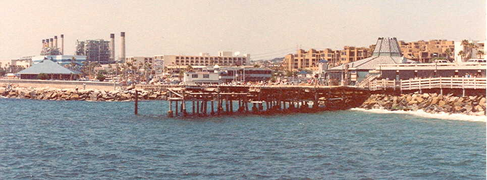 Sportfishing pier in Redondo Beach, California. Photo by Gyrofrog, July 1991.